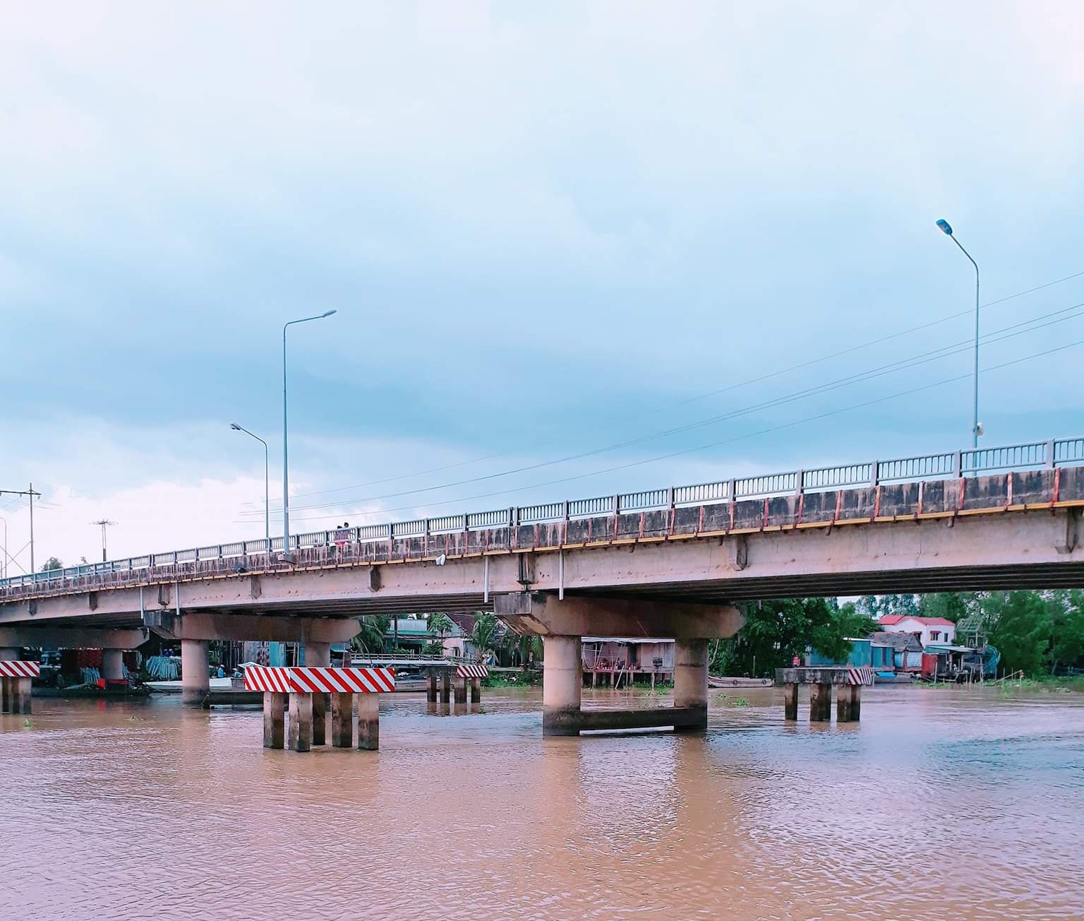 Lai Vung bridge, Highway 54, Tan Thanh, Lai Vung, Dong Thap province